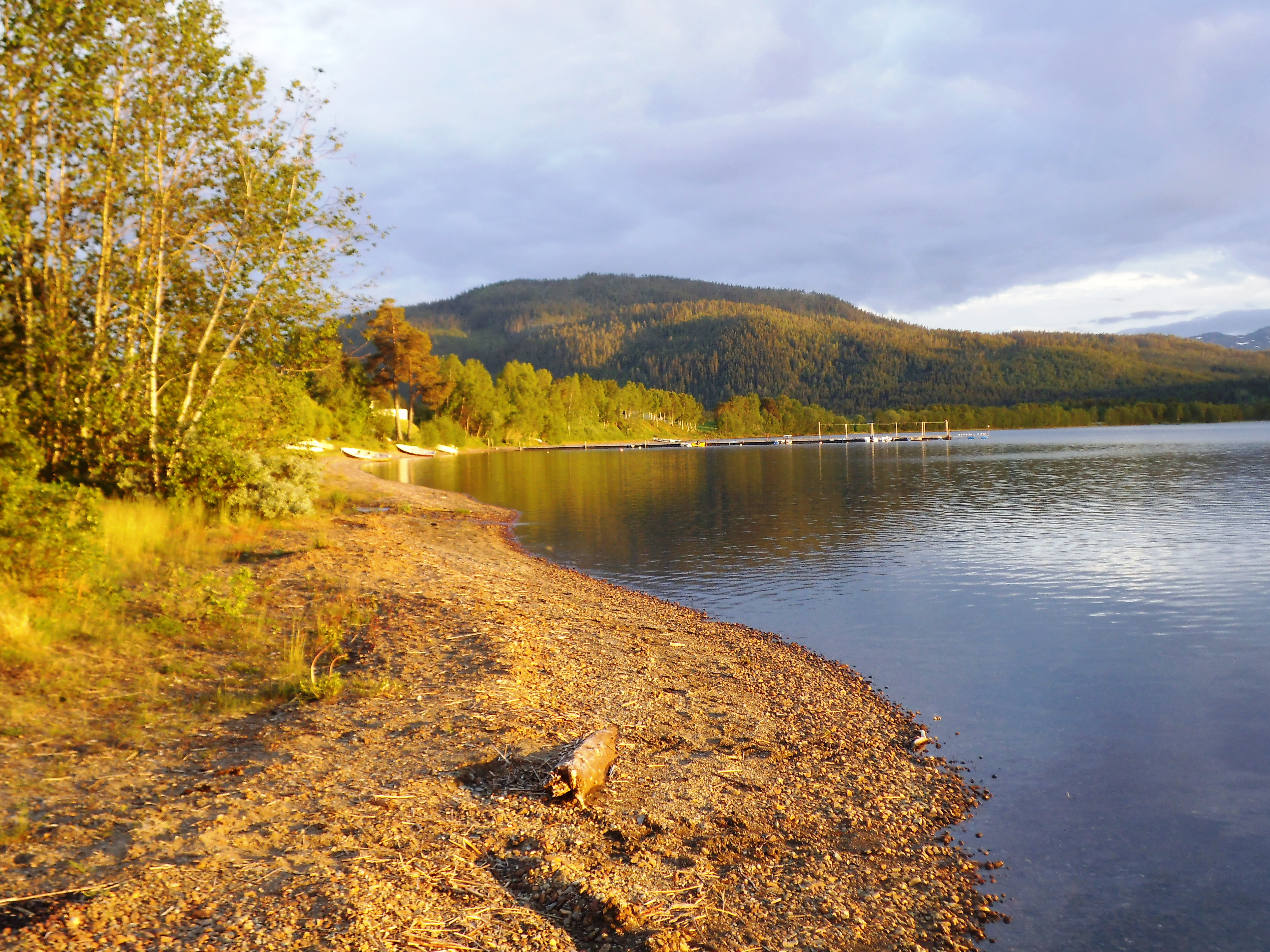 A campsite in Gåsbakken, Melhus, Norway.